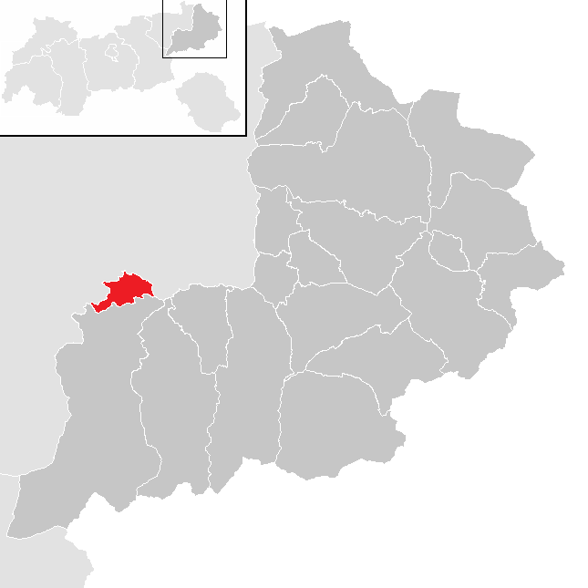 District Kitzbühel